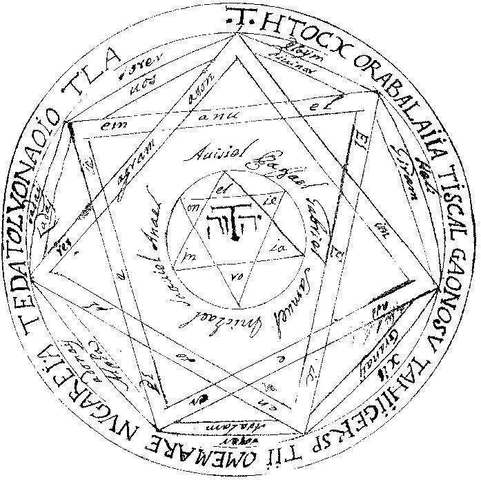 diagram from Bodleian Library Michael MS. 276, entitled Clavicolo di Salomone Re d'Israel figlio de David, an Italian language version of the "Key of Solomon" grimoire. It is a variant of the "Sigillum Aemeth" published in Athanasius Kircher's Oedipus Aegyptiacus (Rome, 1652-4, pp. 479-81.) The figure is accompanied with the following caption (in the translation of S. Liddell MacGregor Mathers 1889): This is the general pentacle, called the Great (or Grand) Pentacle It should be written on sheepskin paper or virgin parchment, the which paper should be tinted green. The circle with the 72 divine letters should be red or the letters may be gold. The letters within the pentacle should be the same red, or sky blue everywhere, with the great name of God in gold. It serves to convene all spirits; when shown to them they will bow and obey you.